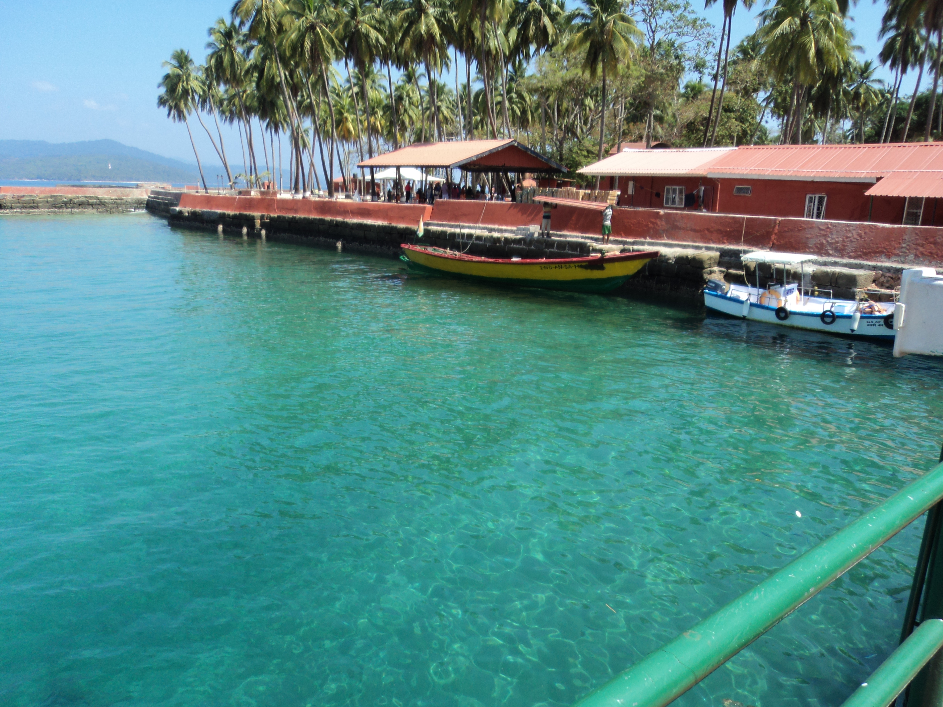 The Best view!